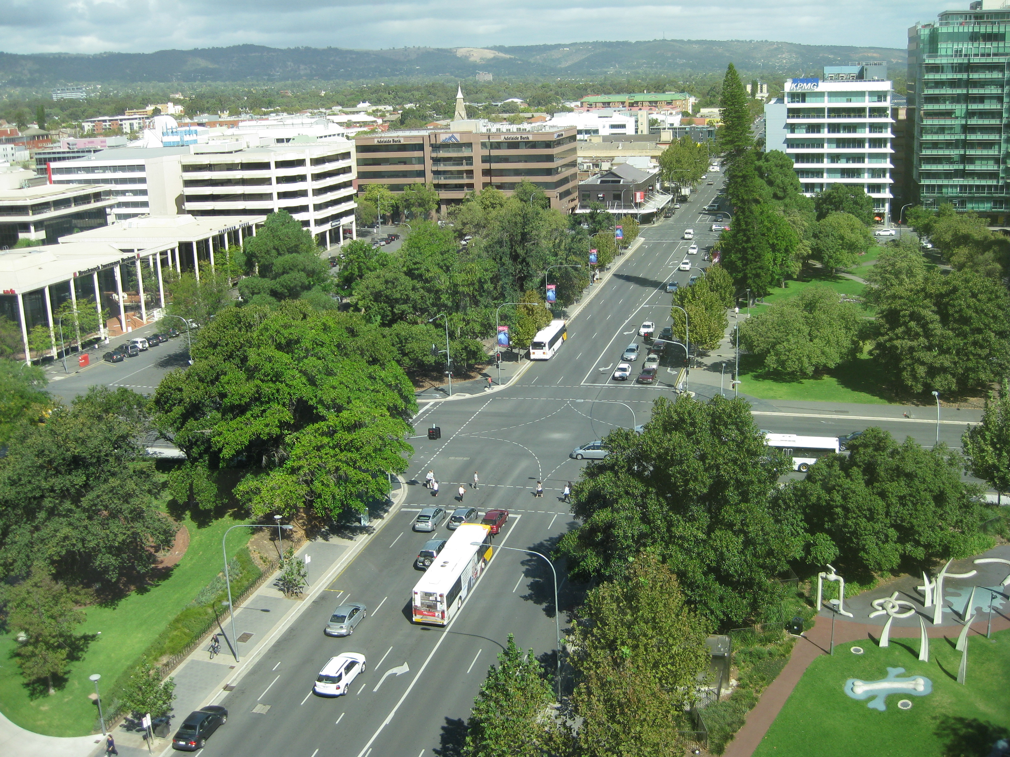 Hindmarsh Square, Adelaide. Intersection of Pulteney Street and Grenfell Street, seen from the CitiCentre Building, Hindmarsh Square.